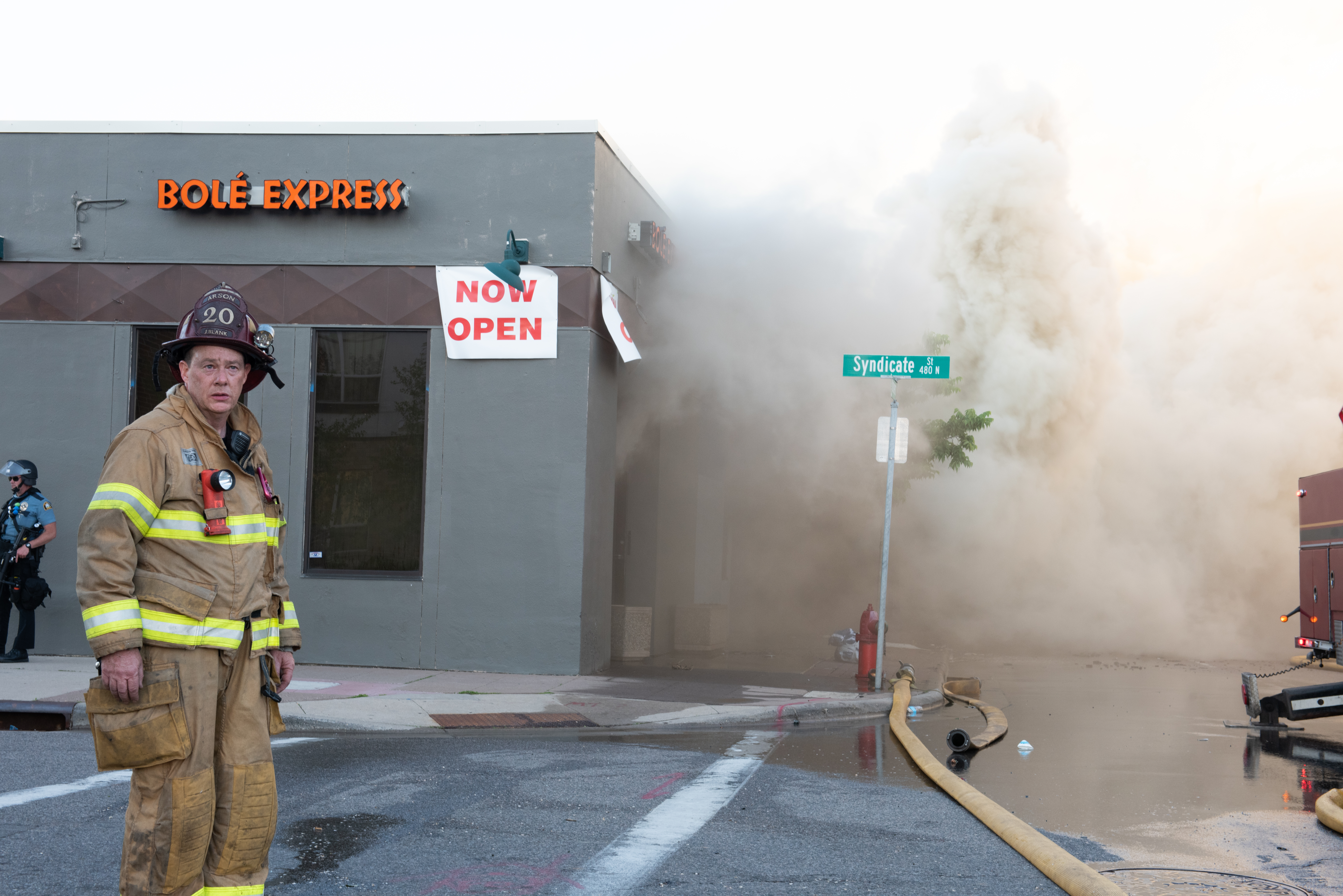 Joe Blank, a captain with the St. Paul Fire Department, stands outside of the smoldering Bolé Express in St. Paul, Minnesota on May 28, 2020. In the aftermath of the death of George Floyd, the neighboring Napa Auto Parts was among the businesses in the Midway neighborhood to be burned to the ground. Bolé Express, an Ethiopian restaurant, was scheduled to be opened on May 30, 2020.